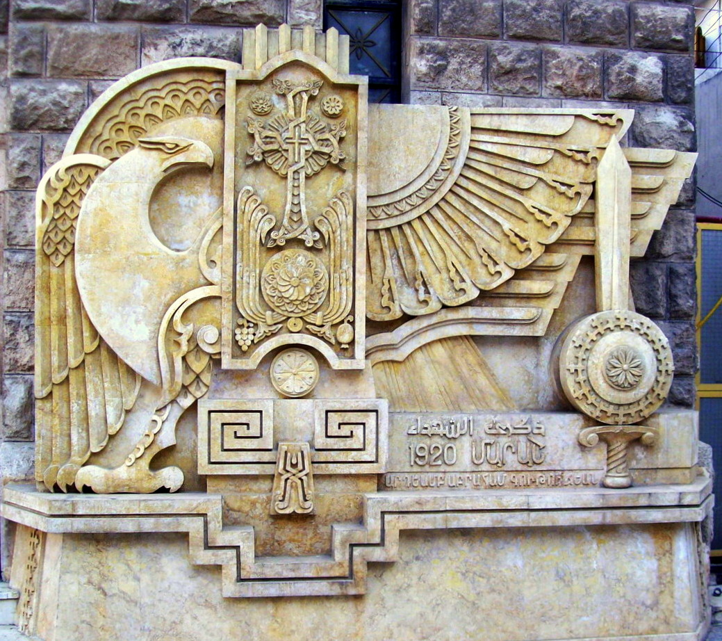 Monument to the Armenian victims of Marash resistance